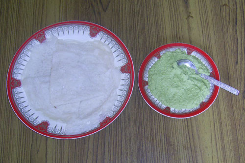 Neer Dosa and thick coconut chutney